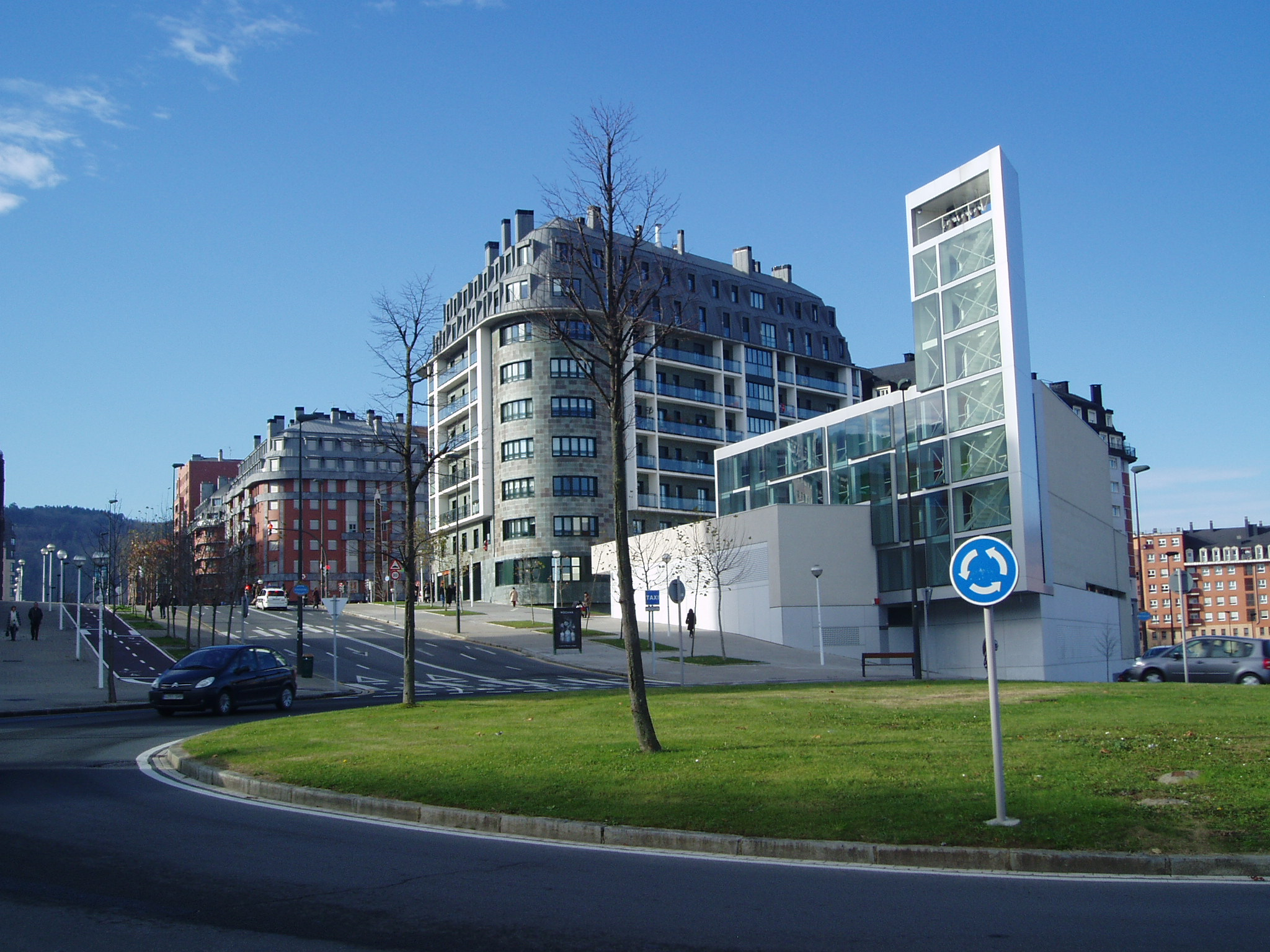 The Church of Miribilla at the Askatasuna (Freedom) Avenue in Bilbao.